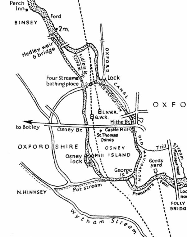 Post WWI